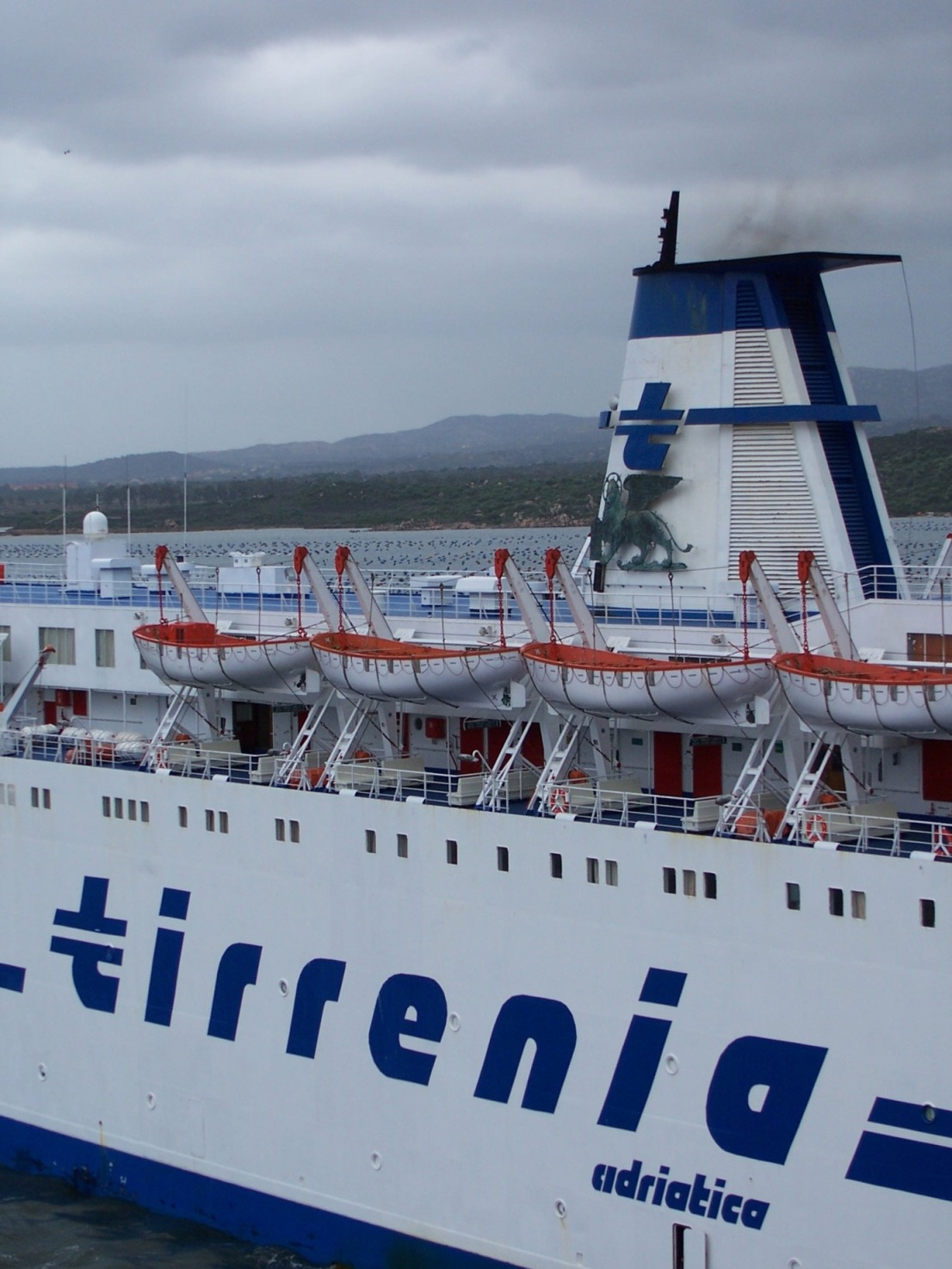 M/S Flaminia a ferry of Tirrenia di Navigazione